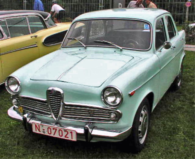 Alfa Romeo Giulietta Berlina TI, third series